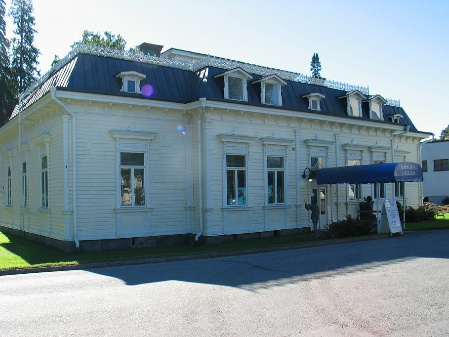 The home of friends in the Aulanko Nature Reserve next to Hämeenlinna